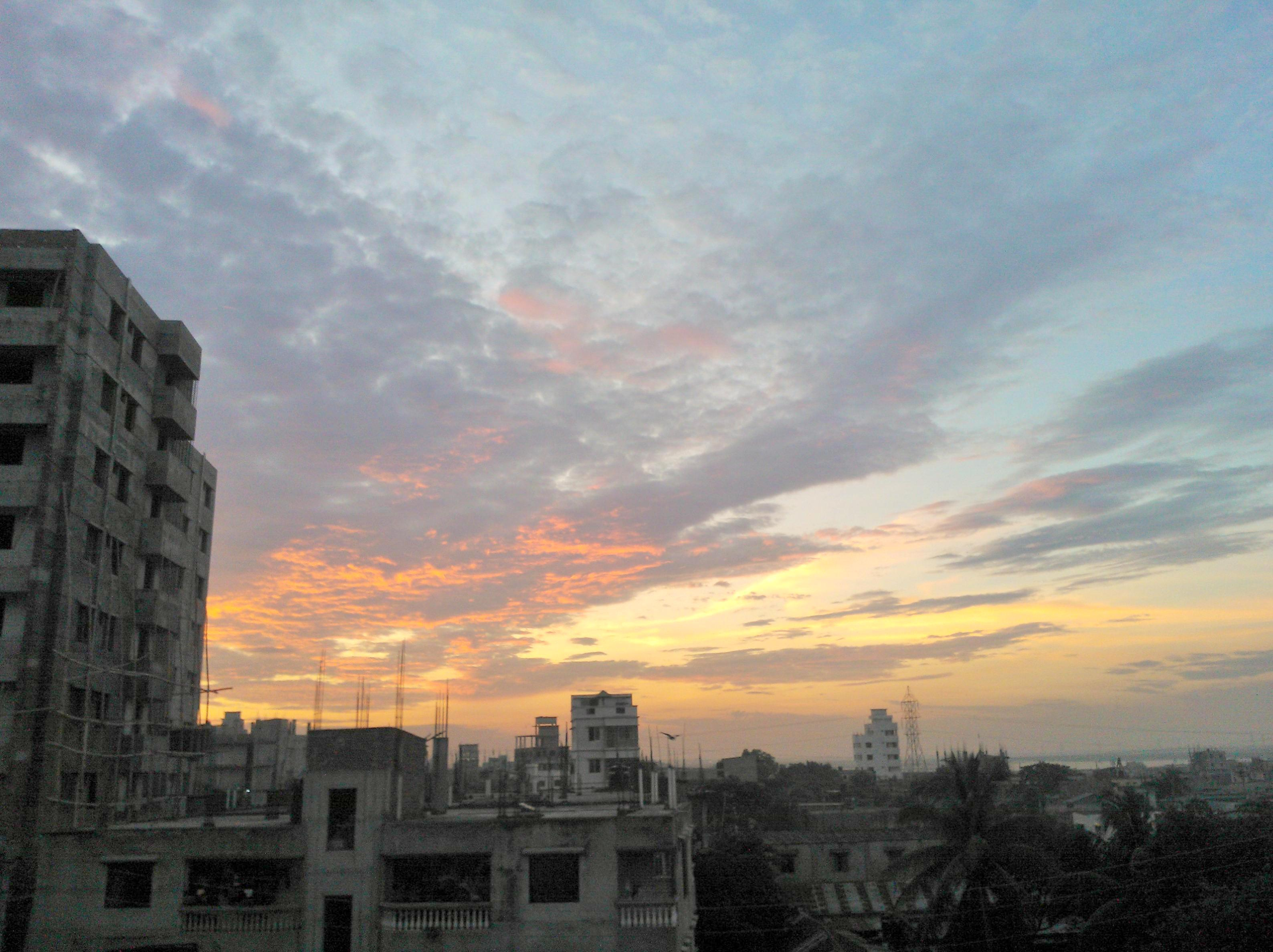 Sunrise in Dhaka.